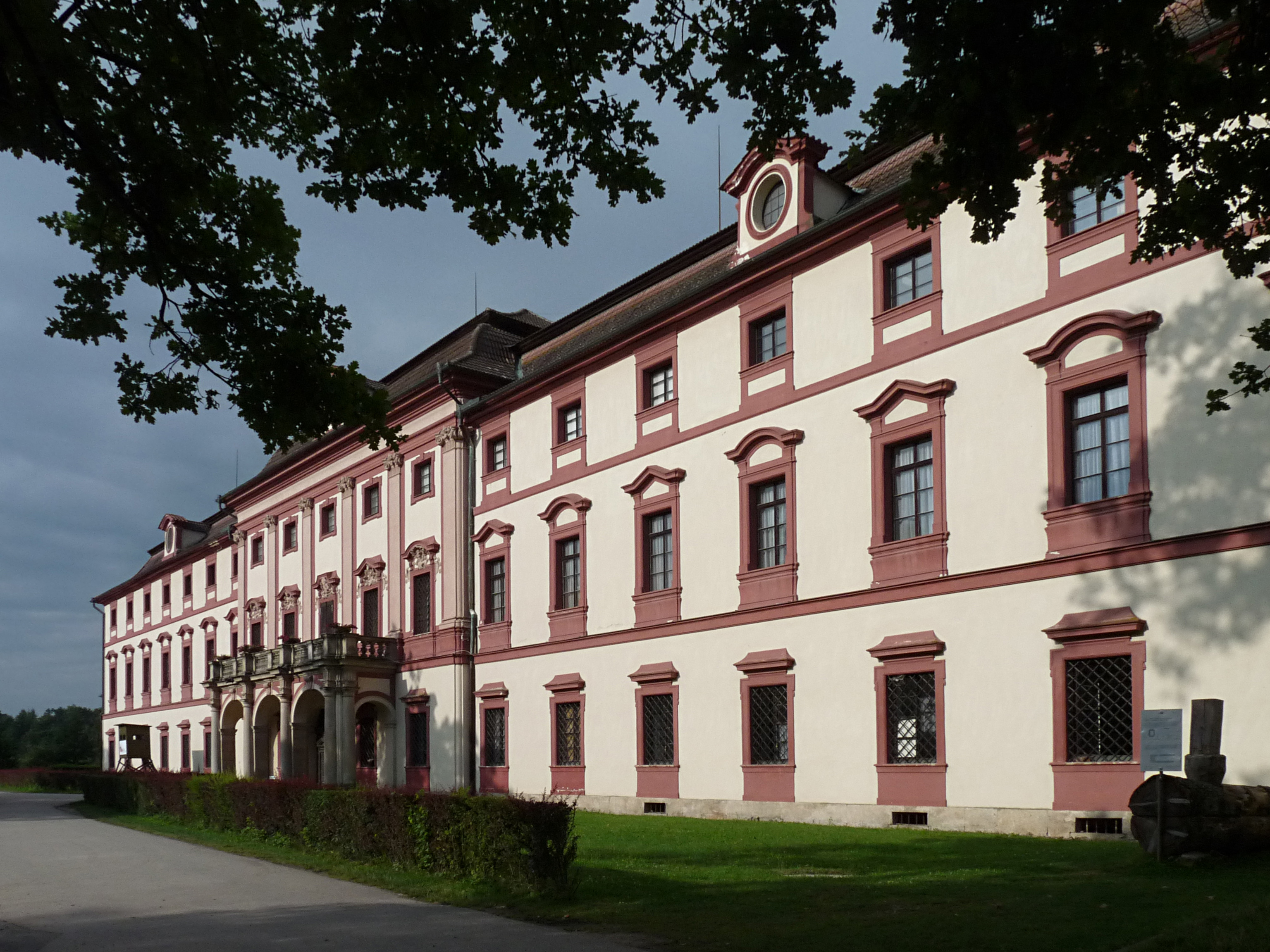 Hunting Lodge Ohrada at Zoo Ohrada near Hluboká nad Vltavou, Czech Republic